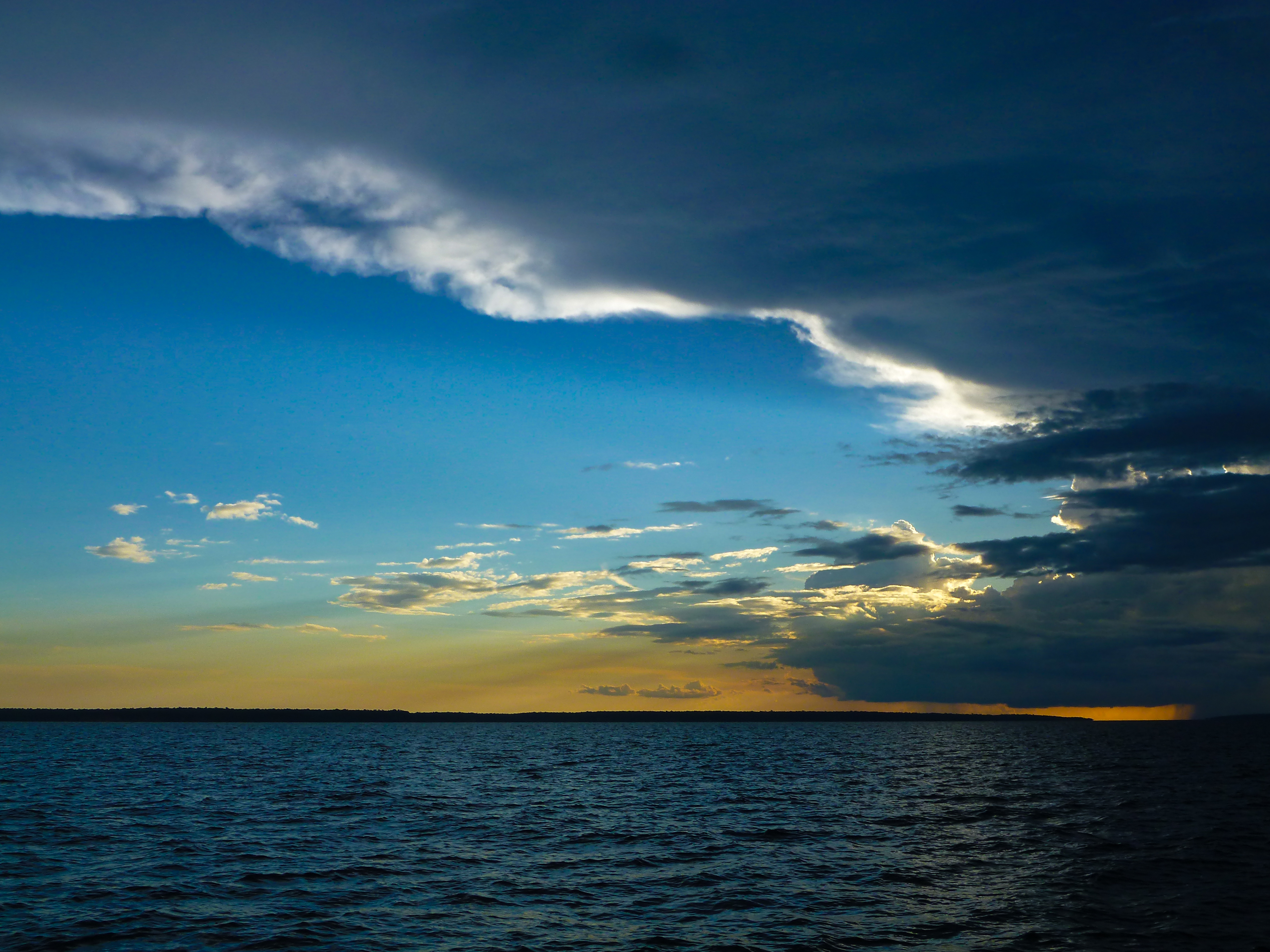 The sun sets behind some clouds on the Rio Negro river, near Manaus in Brazil.